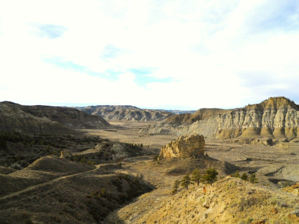 Road from Plateau down to Bull Creek and Cow Creek in Missouri River Breaks. The large sandstone butte in the center of the photo is an erosional remnant. That is, the rest of the valley eroded away, leaving it as an isolated reminder of a solid sandstone layer that once lay in this area.